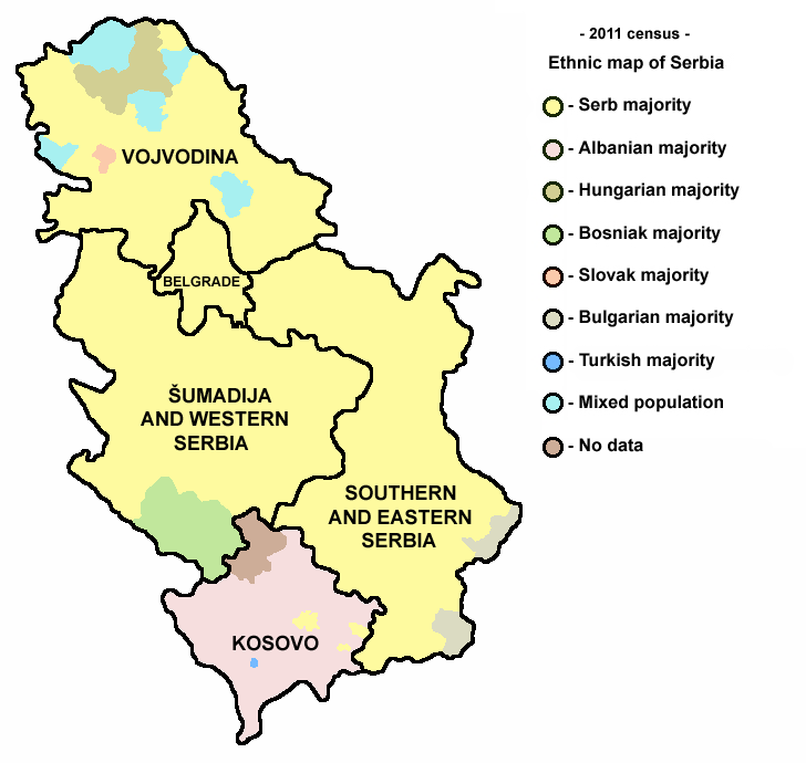 Ethnic map of Serbia (including Kosovo) according to 2011 censuses in Serbia and Kosovo.